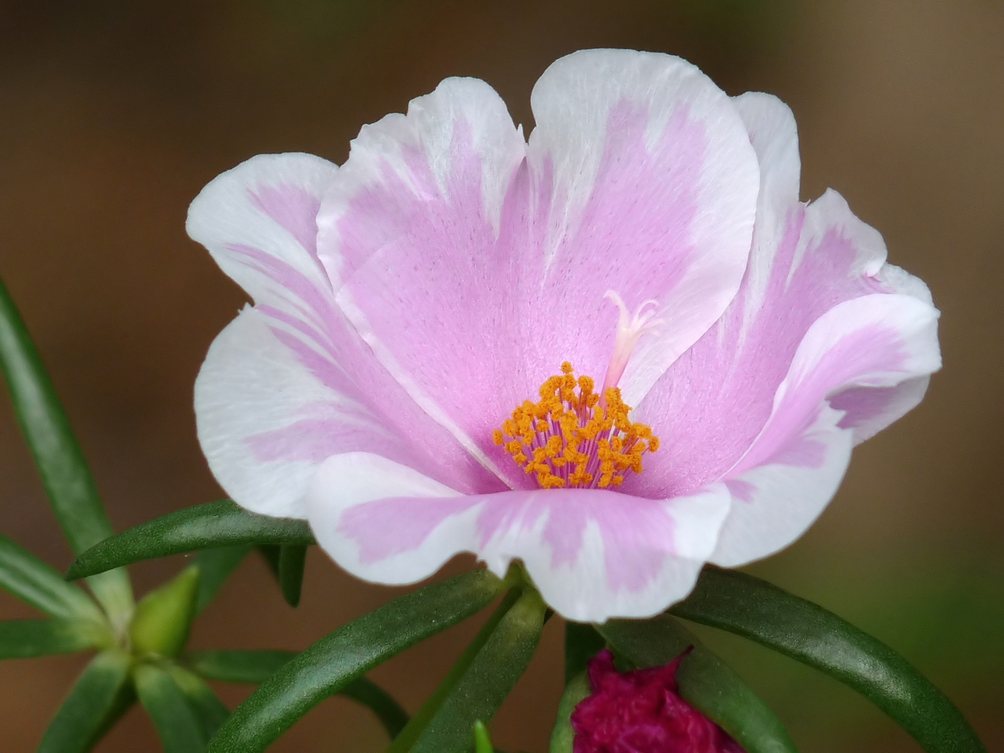 Portulaca grandiflora, Moss-rose Purslane or Moss-rose, is a flowering plant in the family Portulacaceae, native to Argentina, Southern Brazil, and Uruguay. It is also seen in South Asia and widely spread in most of the cities with old 18th-19th century architecture in the Balkans. It is called "Time Flower", because the flower has a specific time to bloom. It is also called "Ten o'clock flower", because the flower is usually in full bloom at 10 o'clock in the morning. It is a small, but fast-growing annual plant growing to 30 cm tall, though usually less. However if it is cultivated properly it can easily reach this height. The leaves are thick and fleshy, up to 2.5 cm long, arranged alternately or in small clusters. The flowers are 2.5–3 cm diameter with five petals, variably red, orange, pink, white, and yellow. Numerous cultivars have been selected for double flowers with additional petals, and for variation in flower color, and it is widely grown in temperate climates as an ornamental plant for annual bedding or as a container plant. It requires ample sunlight and well-drained soils. It requires almost no attention and spreads itself very easily. In places with old architecture it can grow between the stones of the road or sidewalk.